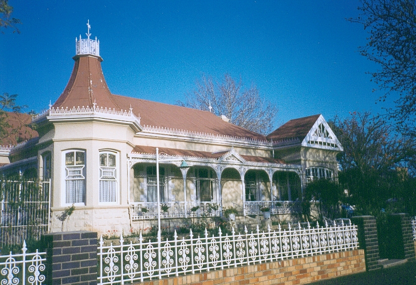 Gottland House, an old building in Oudtshoorn